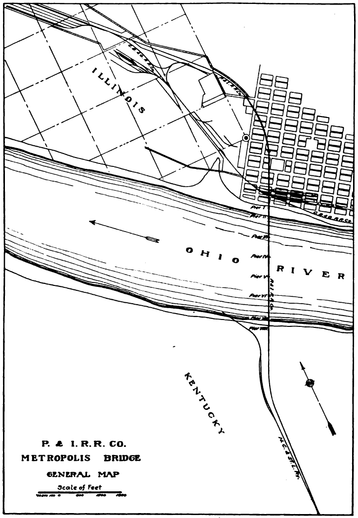 P.&I.R.R., General Map of Metropolis Bridge